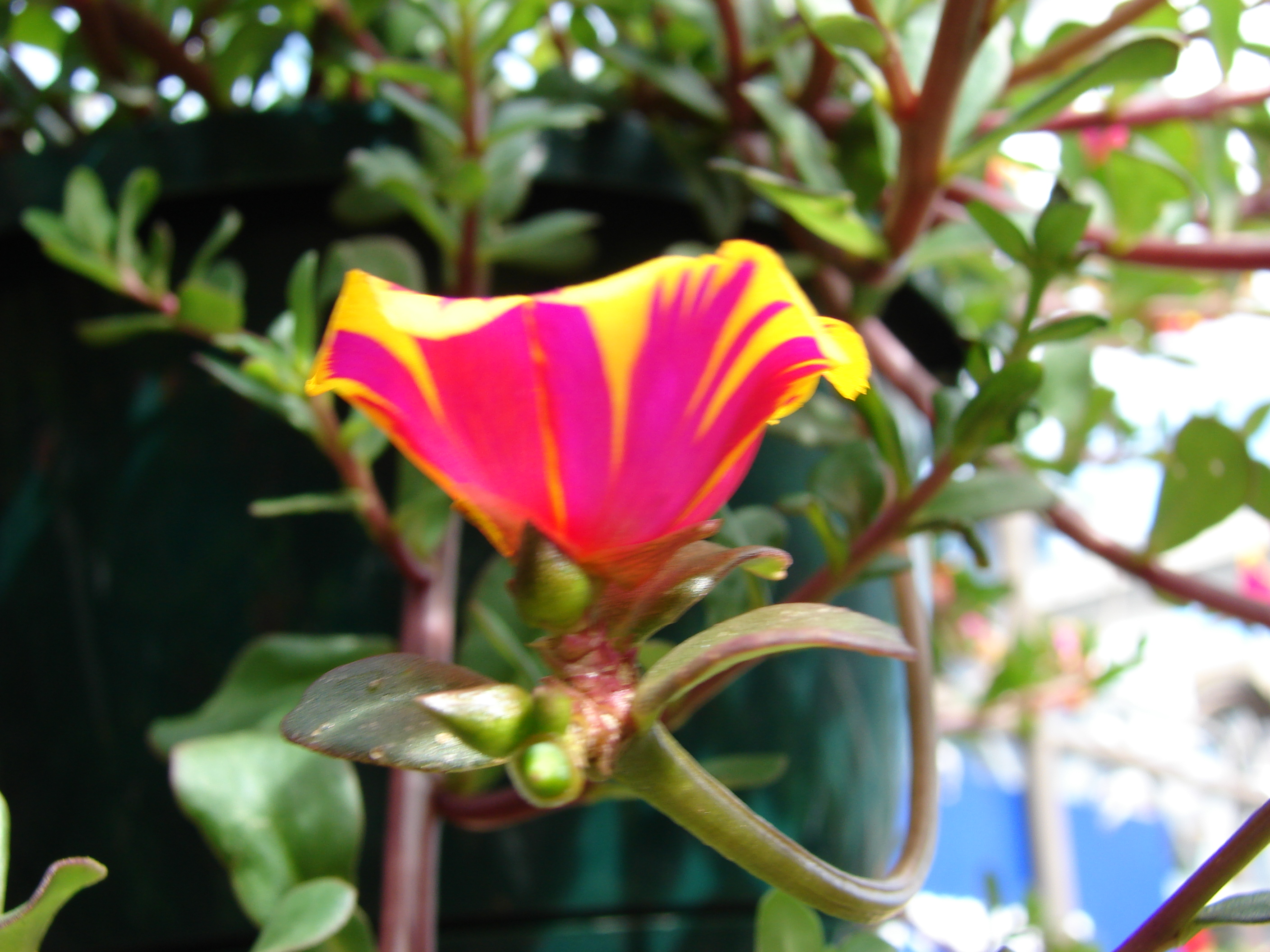 Portulaca umbraticola (flowers and leaves). Location: Maui, Lowes Garden Center Kahului